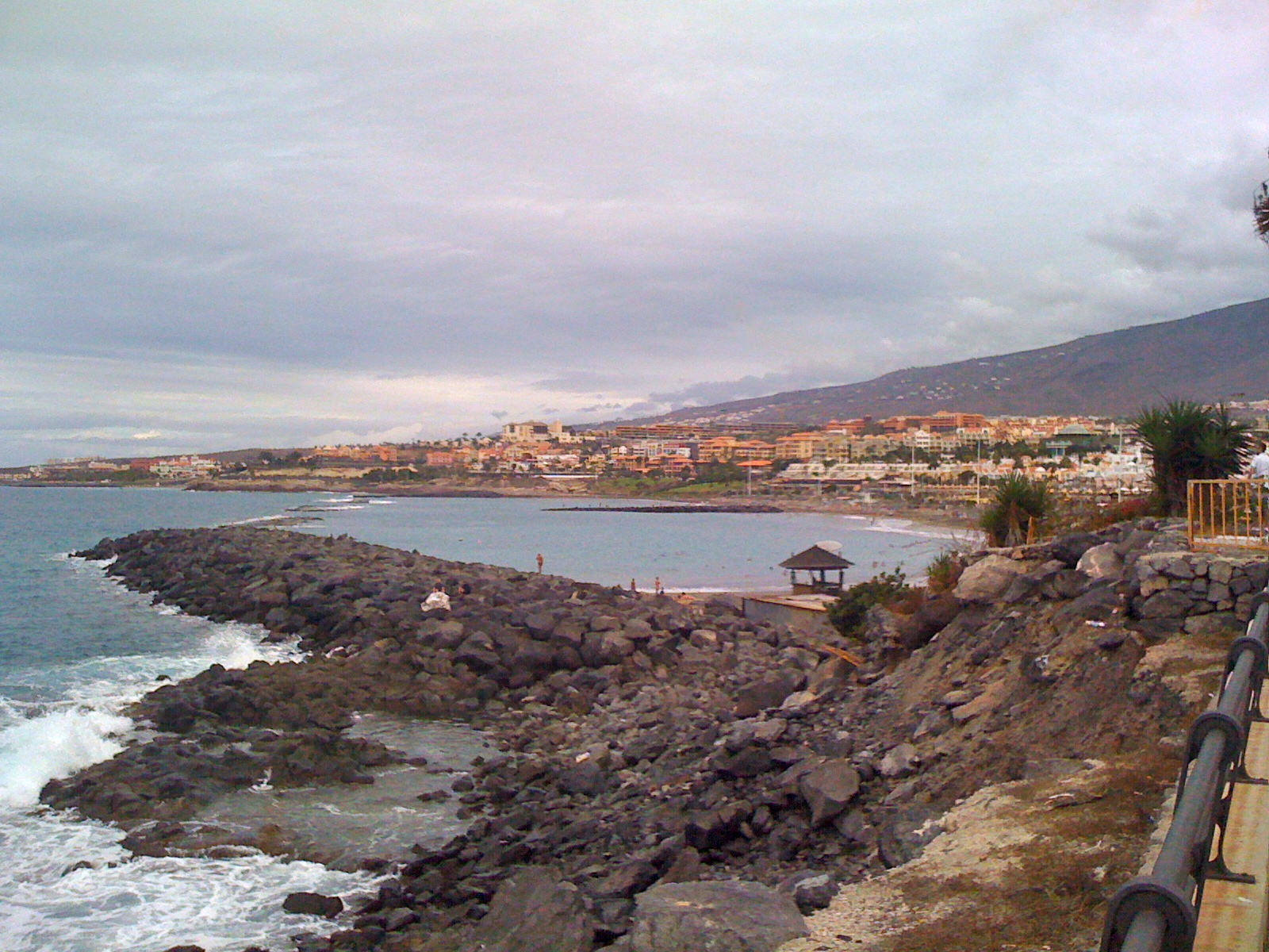 Costa Adeje coast